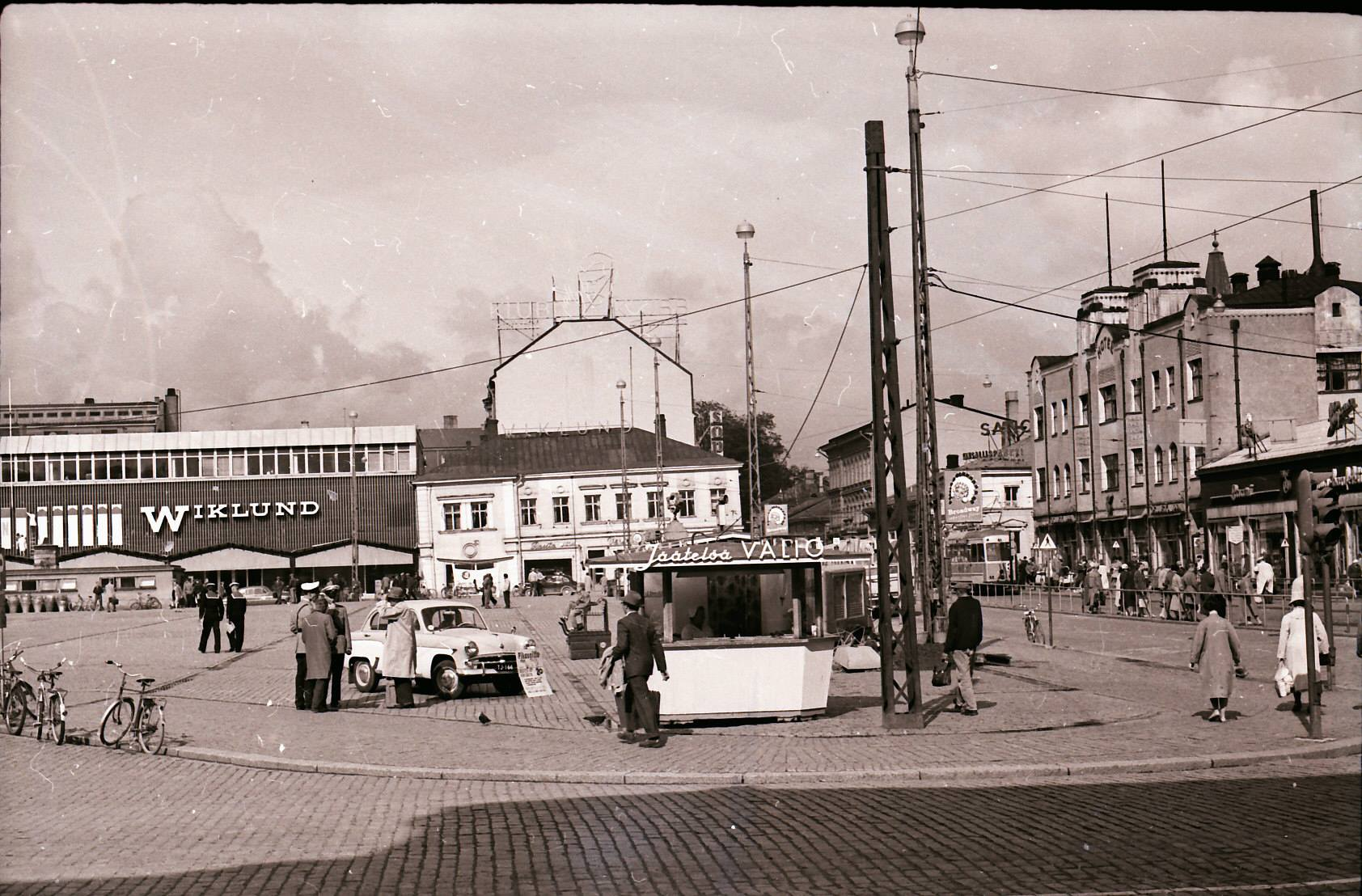 Turku Market Square 1959. On the left is the Wiklund store, built 1957. On the right Hamburger Börs hotel, demolished 1976.